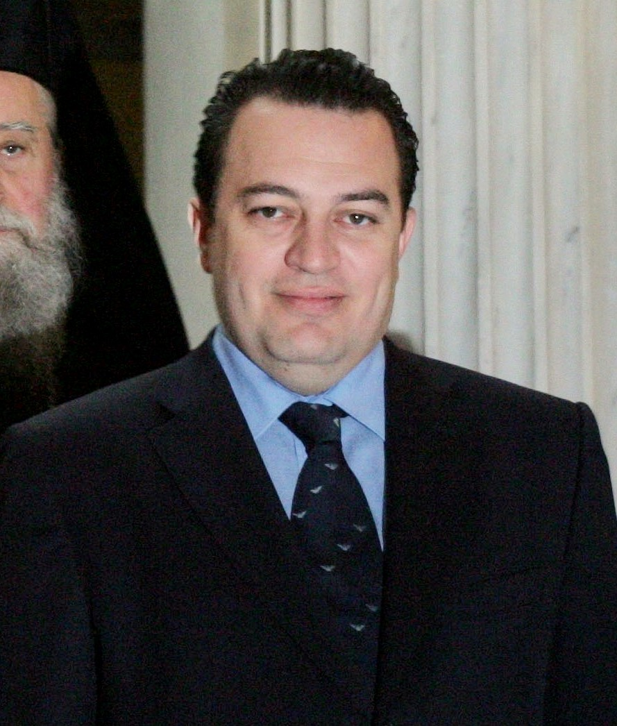 Karolos Papoulias and Evripidis Stylianidis at the declaration ceremony of the Archbishop Ieronymos II of Athens, Presidential Palace 2008.